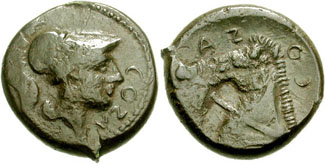 Etruria. Cosa. Circa 273-250 BC. Æ Quartuncia (4.83 g). Head of Coza (o Minerva ?) right, wearing crested Corinthian helmet Bridled horse's head left. Buttrey, "The mint of Cosa," Memoirs of the American Academy in Rome 334 (1980), Type IIa; cf. SNG France 1; cf. SNG ANS 75; HN Italy 211. VF, glossy brown patina. Rare. From the Tony Hardy Collection.